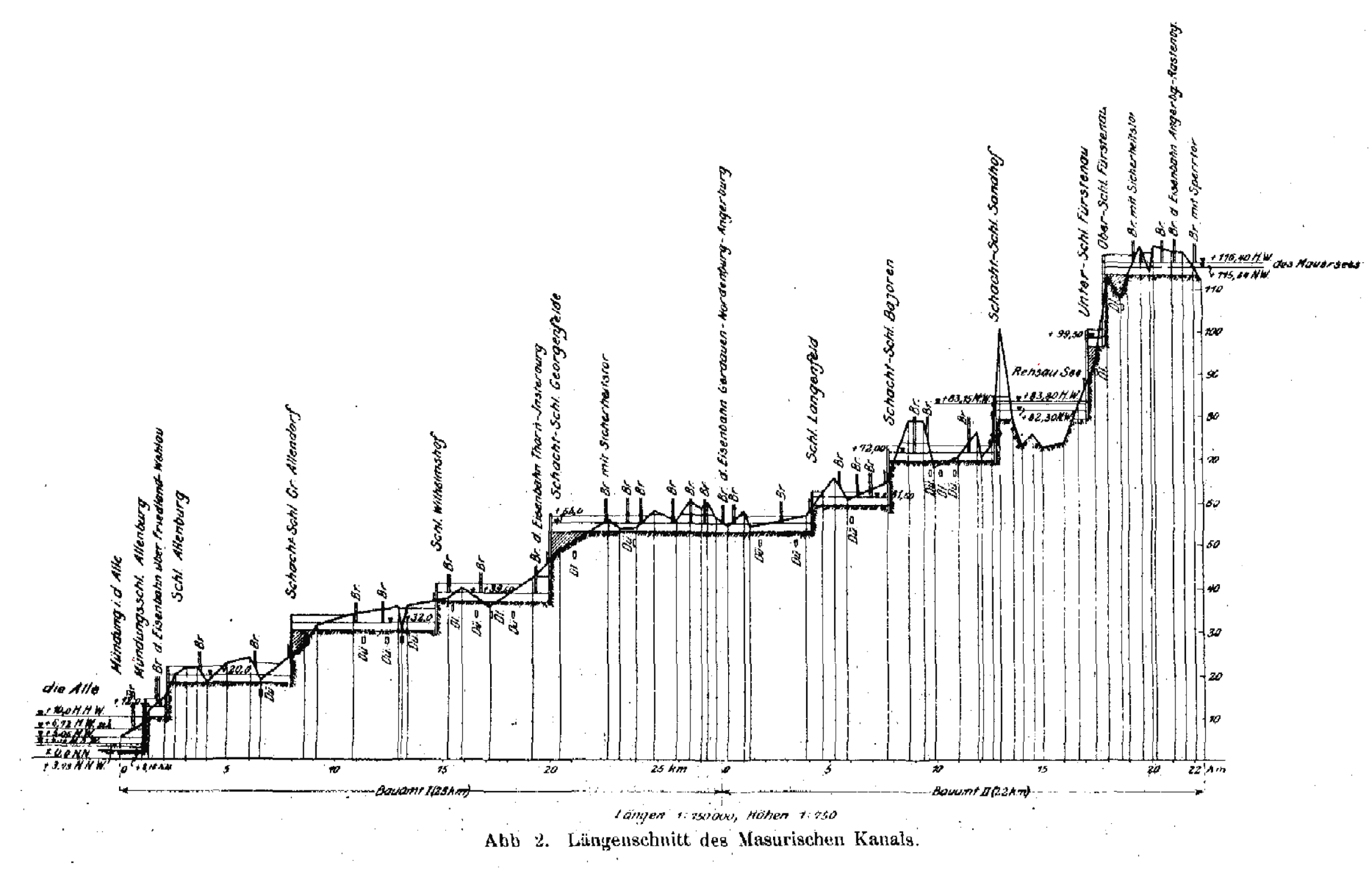 longitudinal profile of the Masurian Canal in Northeast Poland (until 1945 south of East Prussia in Germany)